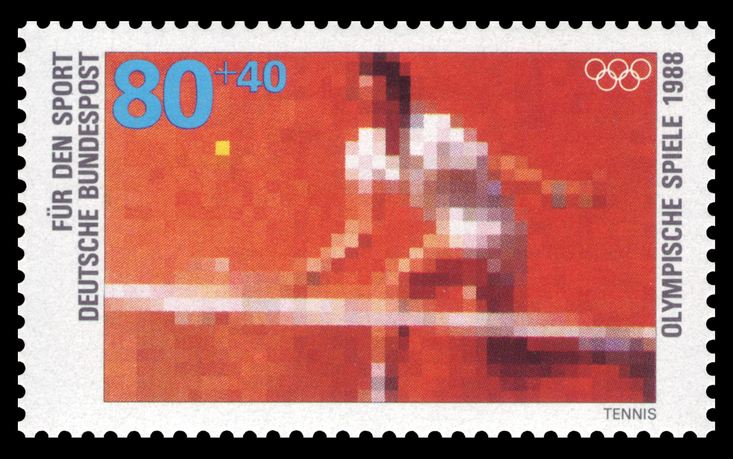 additional fees for German sports, UEFA European Football Championship and Olympic summer games in Seoul